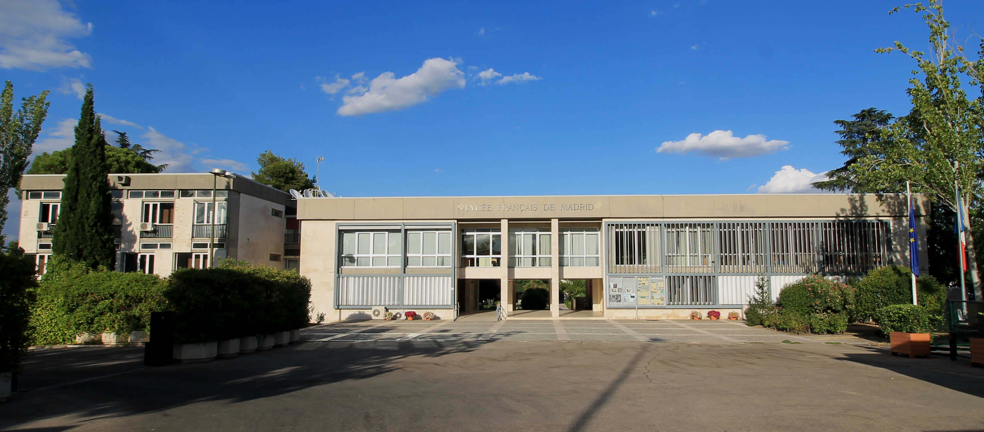 View of the Conde de Orgaz campus of the Lycée Français in Madrid (Spain).